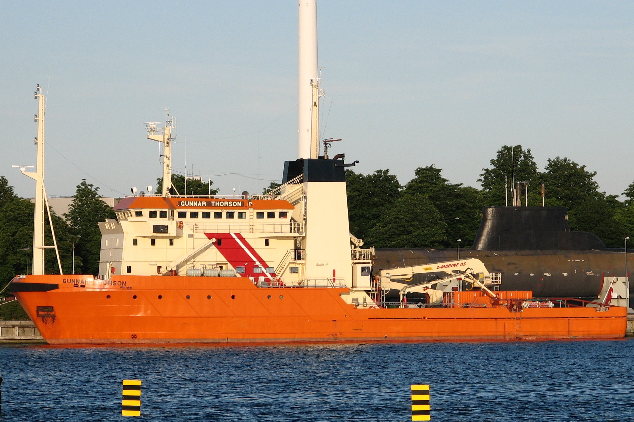 Icebreaker, Copenhagen IMO Number: 7924061 MMSI Number: 219263000 Callsign: OUDU Length: 56 m Beam: 12 m